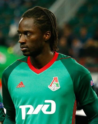 Éderzito António Macedo Lopes